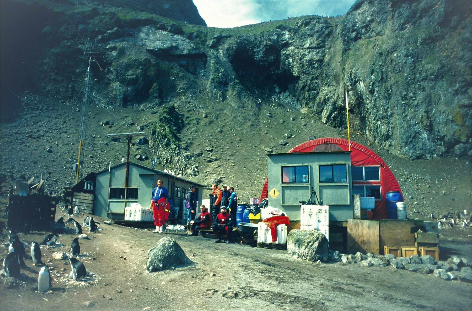 NOAA Seal Island field camp. Seal Island. Antarctica. 1994-95 Austral Summer. Photographer: Lieutenant Philip Hall, NOAA Corps.